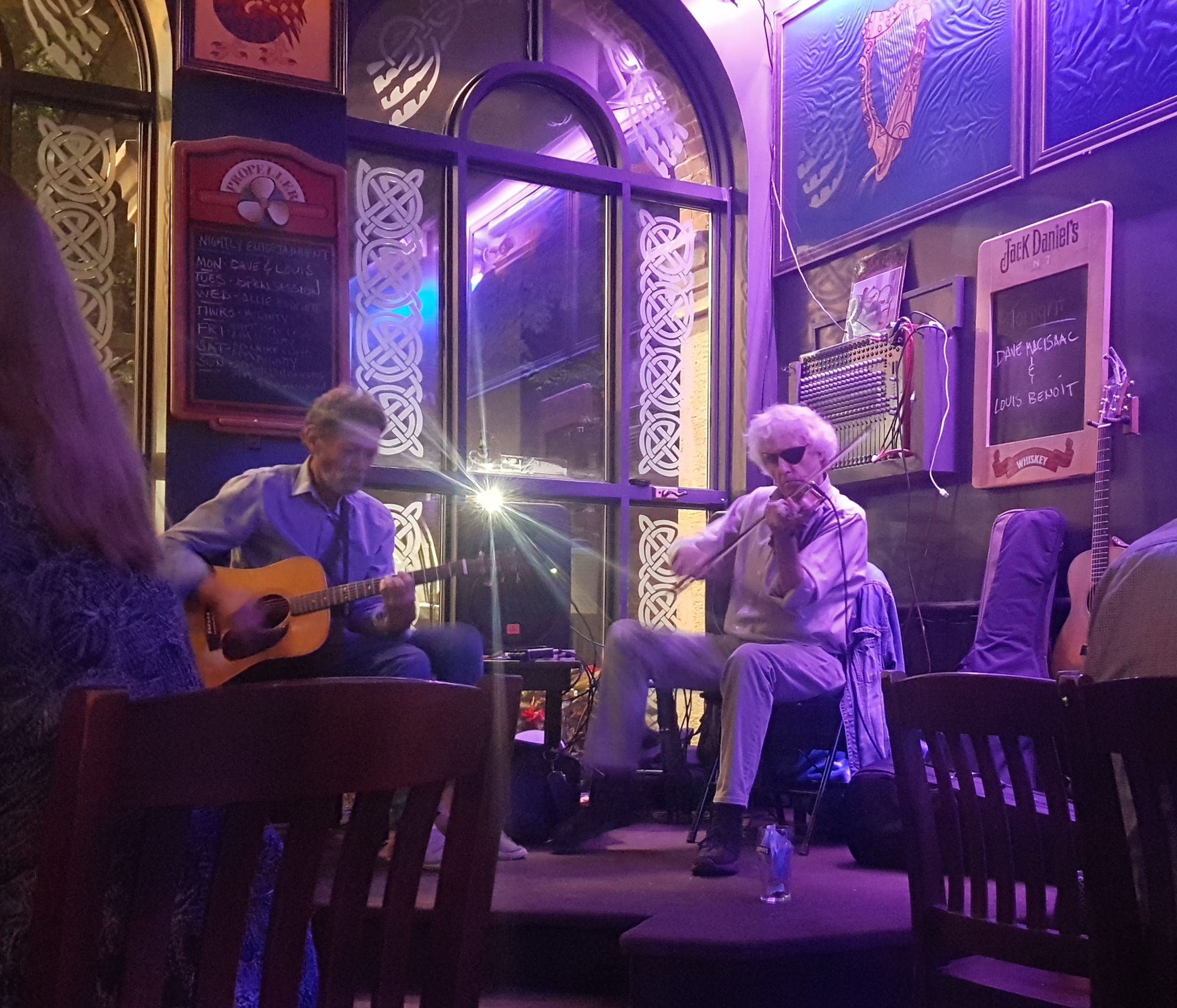 Fiddler Dave MacIsaac (right) and guitarist Louis Benoit (left) perform on stage at The Old Triangle Irish Alehouse on September 2, 2019 in Halifax, Nova Scotia, Canada.